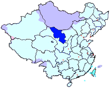 Created by Pryaltonian for maps of Mainland provinces of the Republic of China. Adapted from